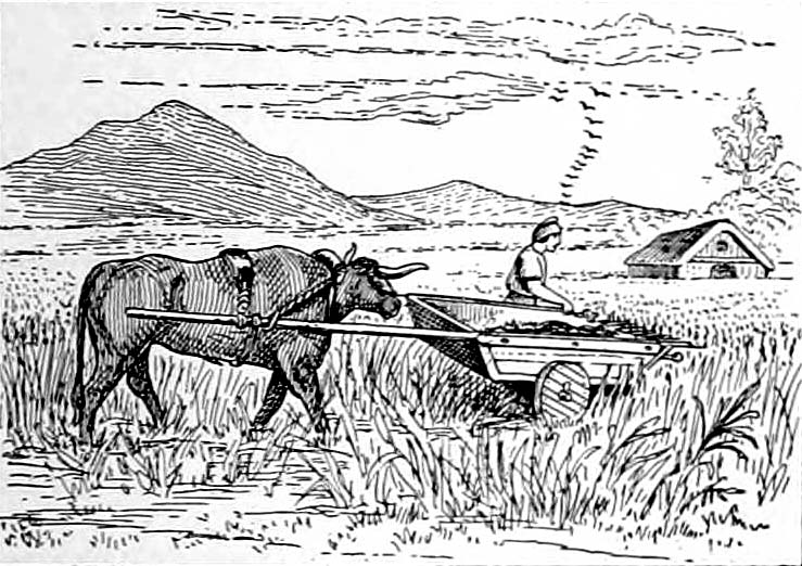 illustration of a Gallic header, the first reaping machine recorded in history by Pliny in A.D. 23